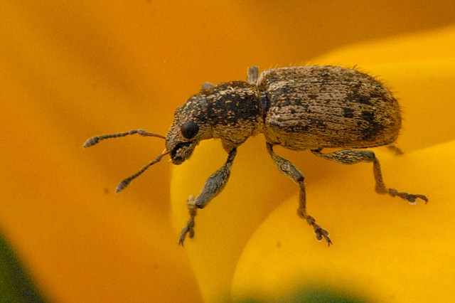 Sitona macularius from Commanster, Belgian High Ardennes .